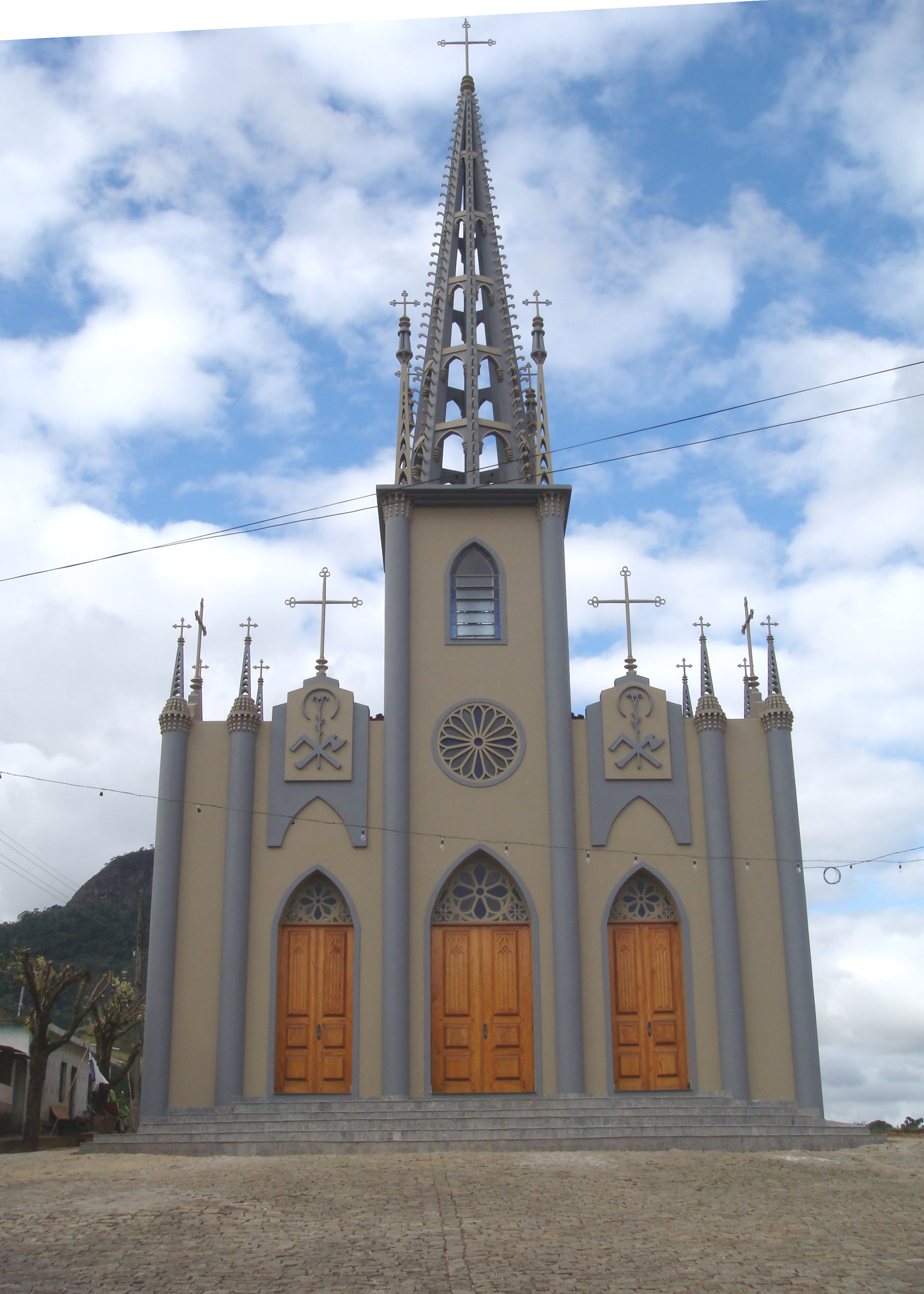 São José Church in Pedra Dourada, Minas Gerais, Brazil